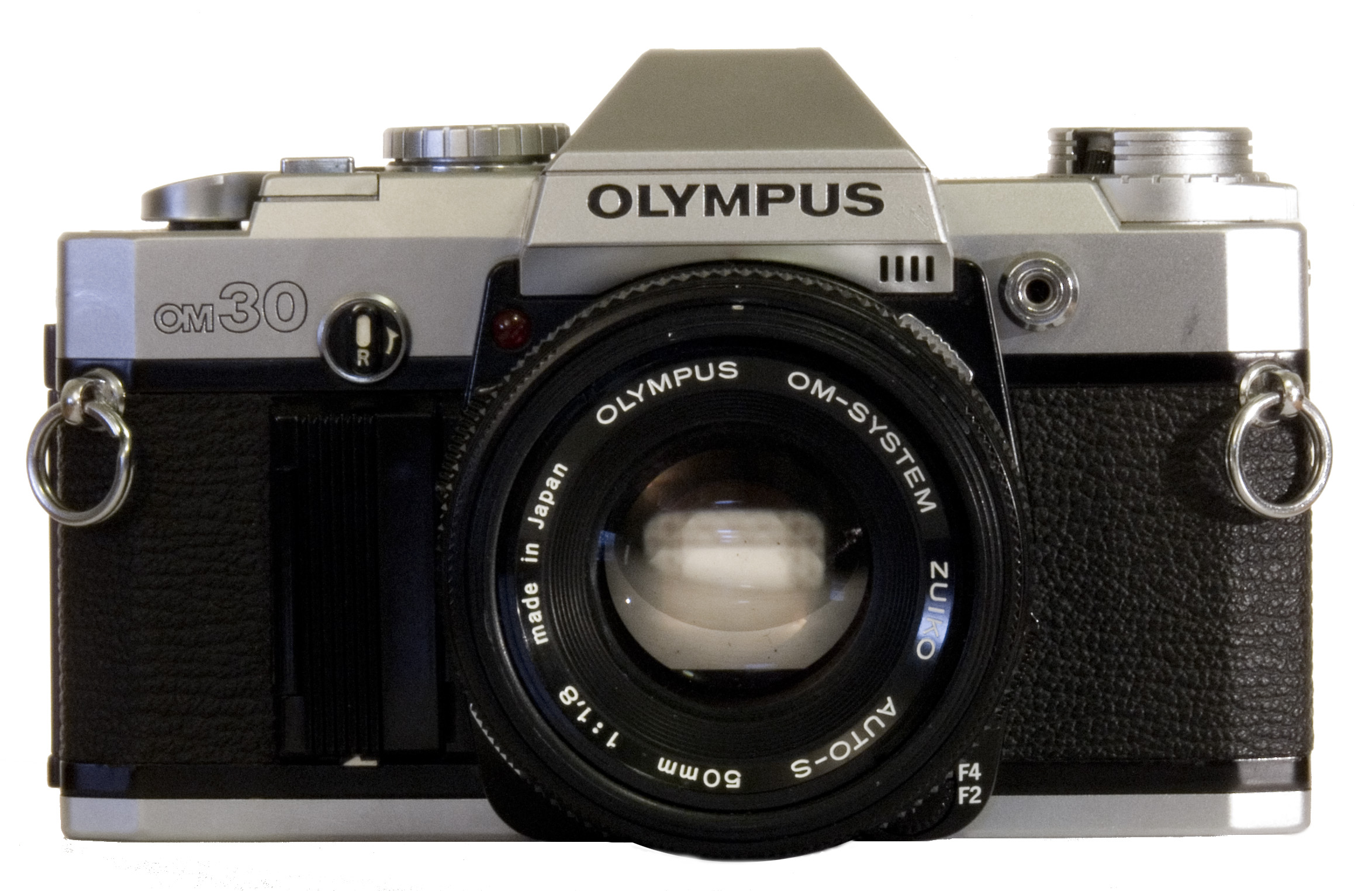 Olympus OM-30 SLR camera